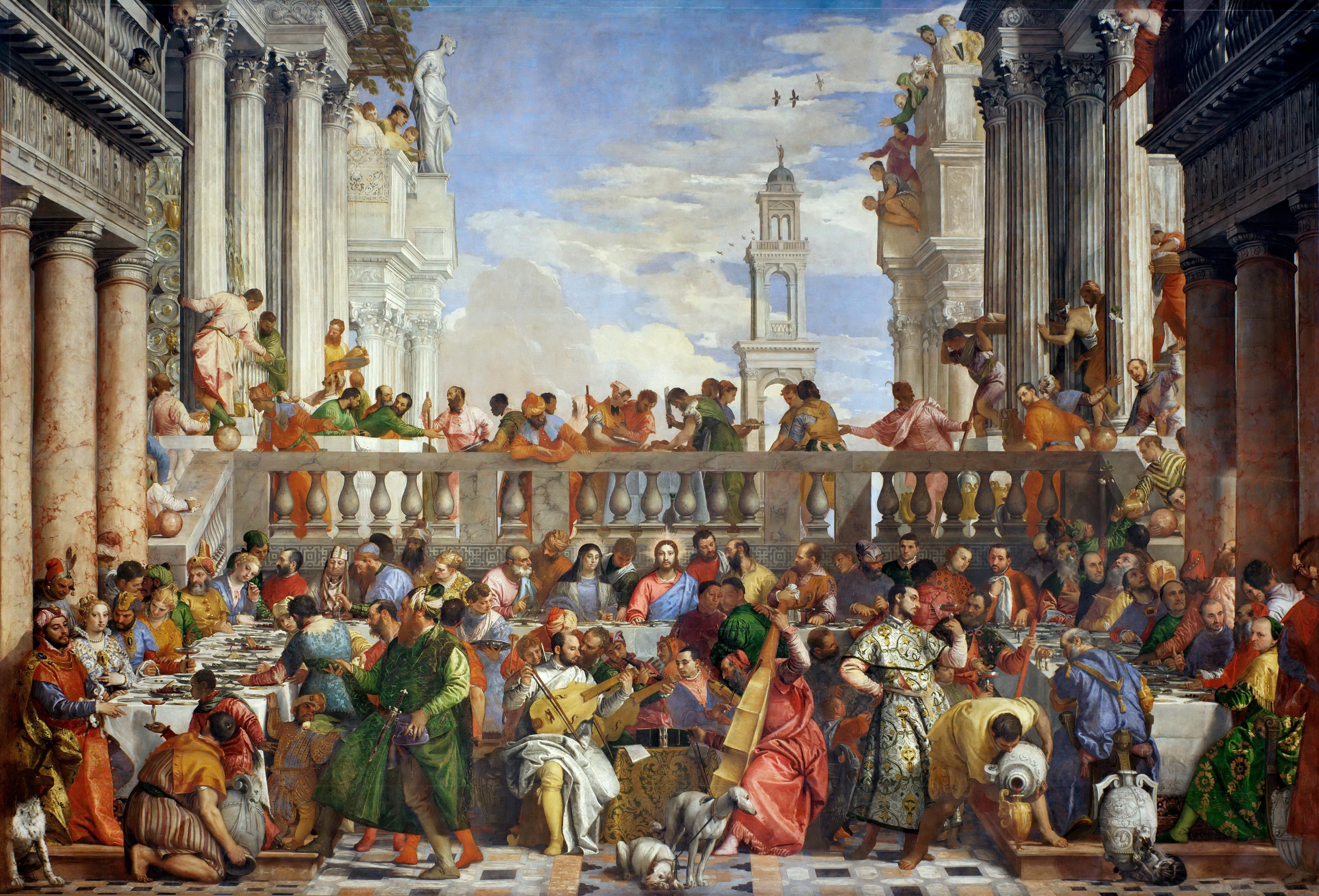 without frame